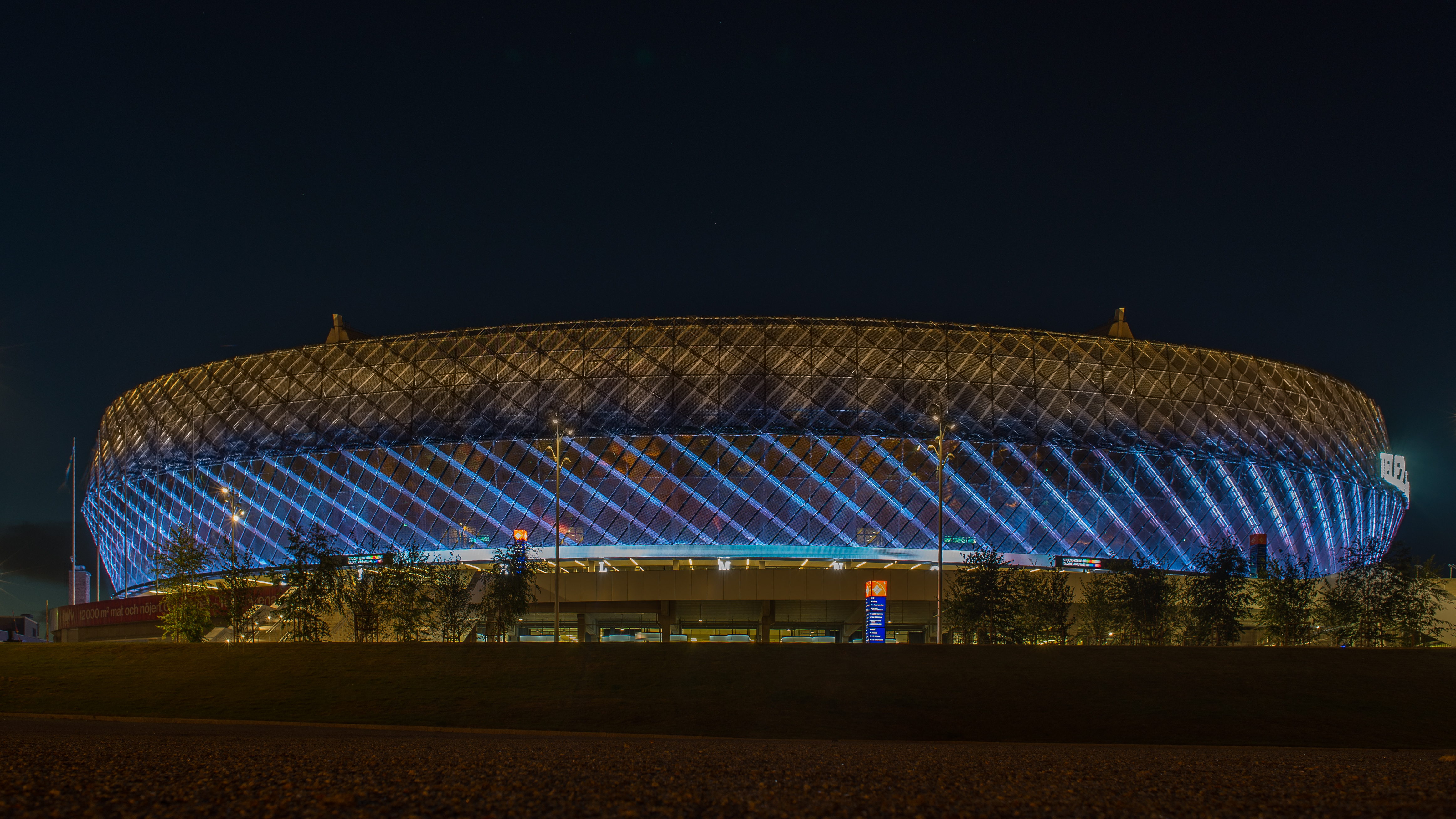 Tele2 Arena at night. View from south. Johanneshov, Stockholm.